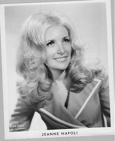 This publicity photo of a deceased person falls under fair use. It was commissioned by Jeanne Napoli, to be used for publicity purposes. It was taken by Fred Marcus studios ( The writing in the lower left corner is the Fred Marcus logo. However, Fred Marcus does not own the rights to the photo; those rights were owned by Jeanne Napoli, who is no longer living. The photo was supplied to Wikipedia by her daughter, Danielle Napoli.